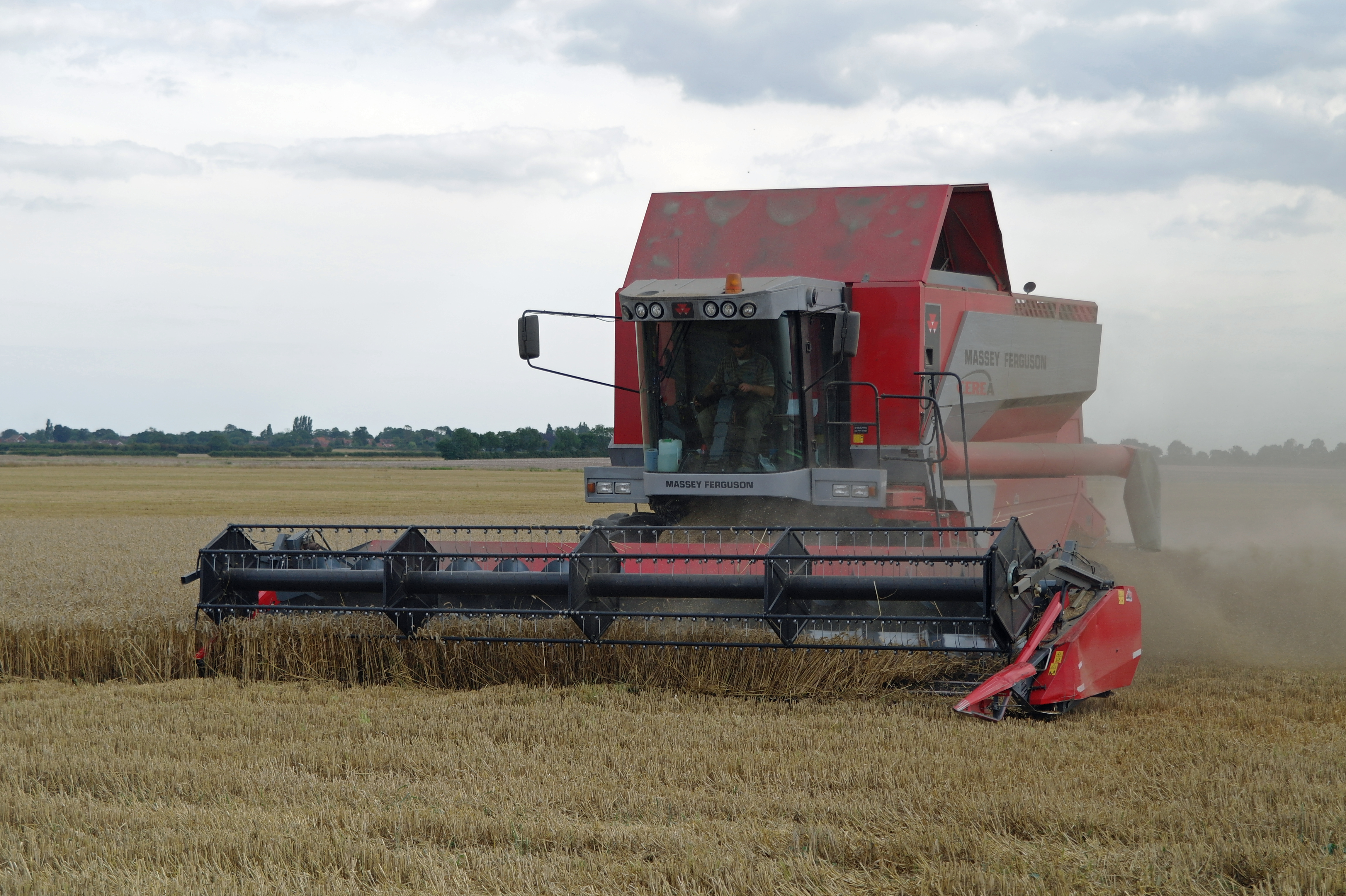 Massey Ferguson Cerea (unknown model) combine harvester combining Thorney's Field in New Holland, England. Thorney's Field is situated north of Oxmarsh Lane. The harvested grain was being taken to nearby Summercroft Farm.